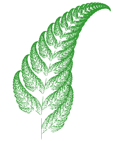 Fractal fern - using larger angle